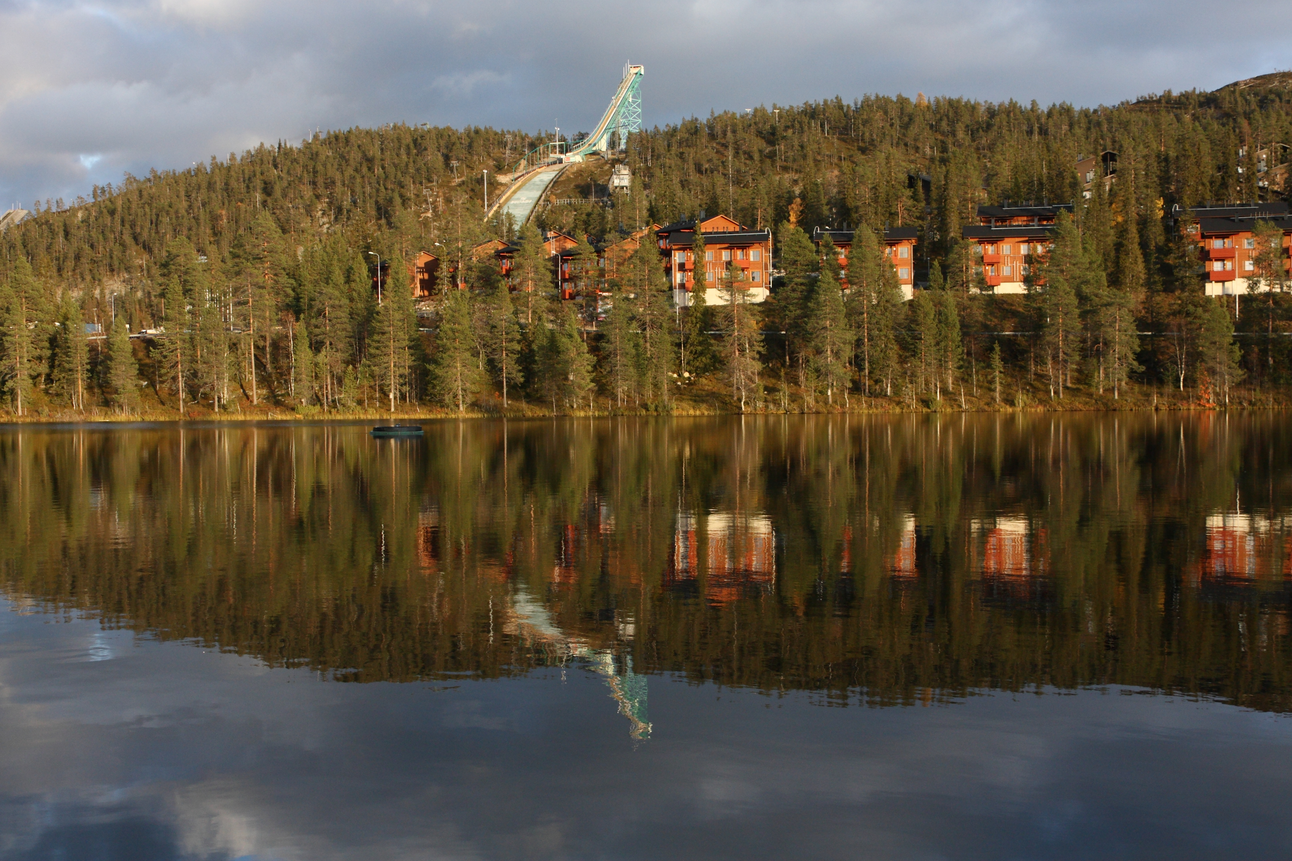 Ruki ski jumping hill in Kuusamo, Finland. Lake Talvijärvi on the foreground.